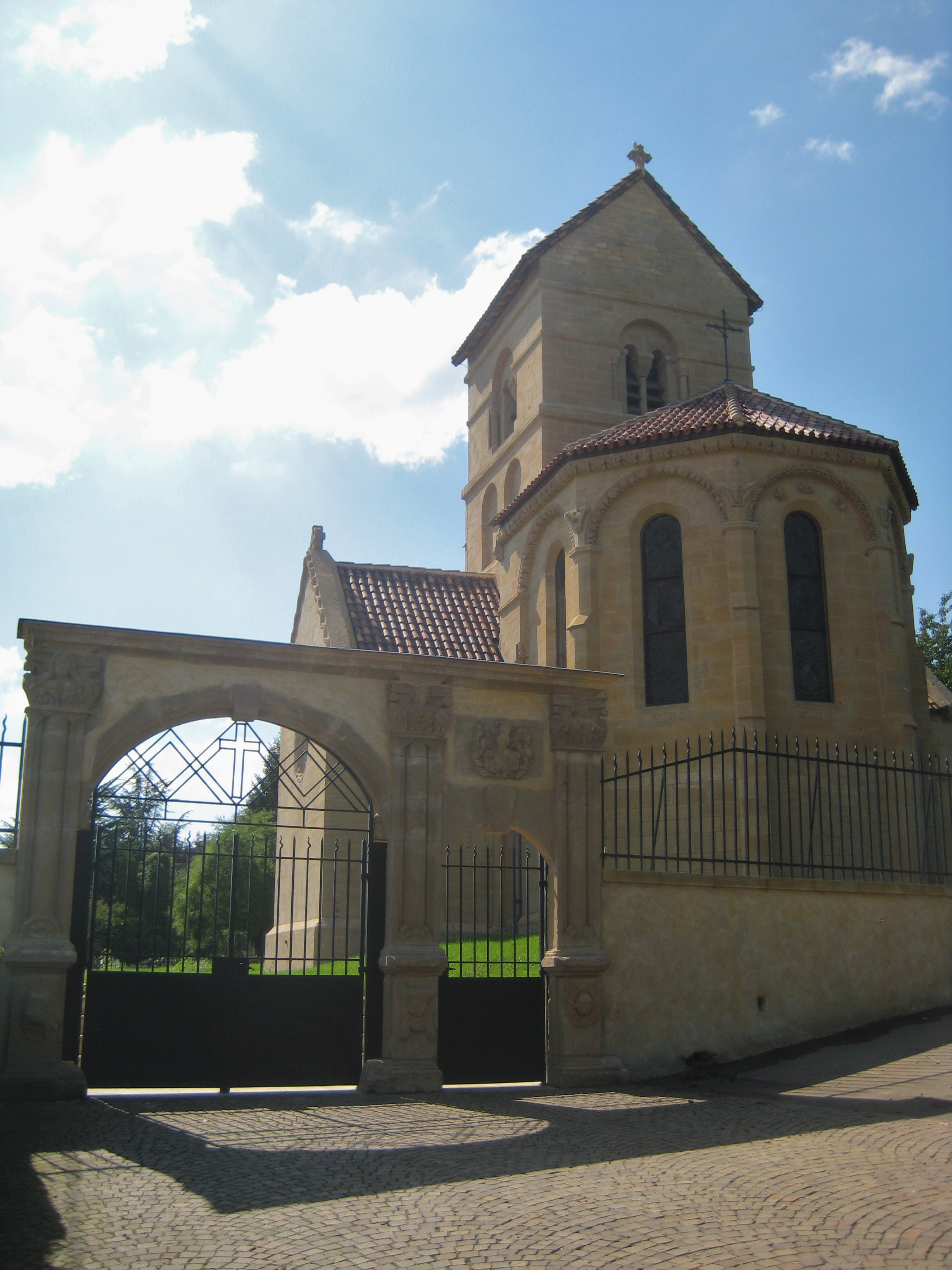 Description eglise Morlange Date4 August 2011Sourcemon appareil photoAuthorAimelaimePermission (Reusing this file) eglise Morlange